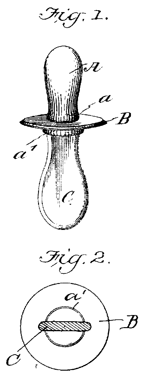 A US patent drawing from 1900 (cropped)